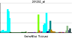 Gene expression pattern of the PCNA gene.